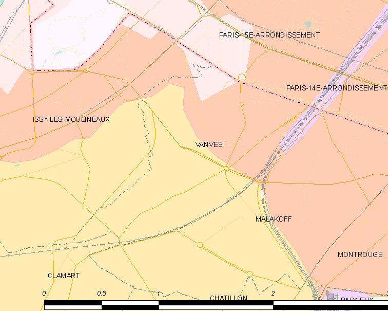 Map of French municipality Vanves